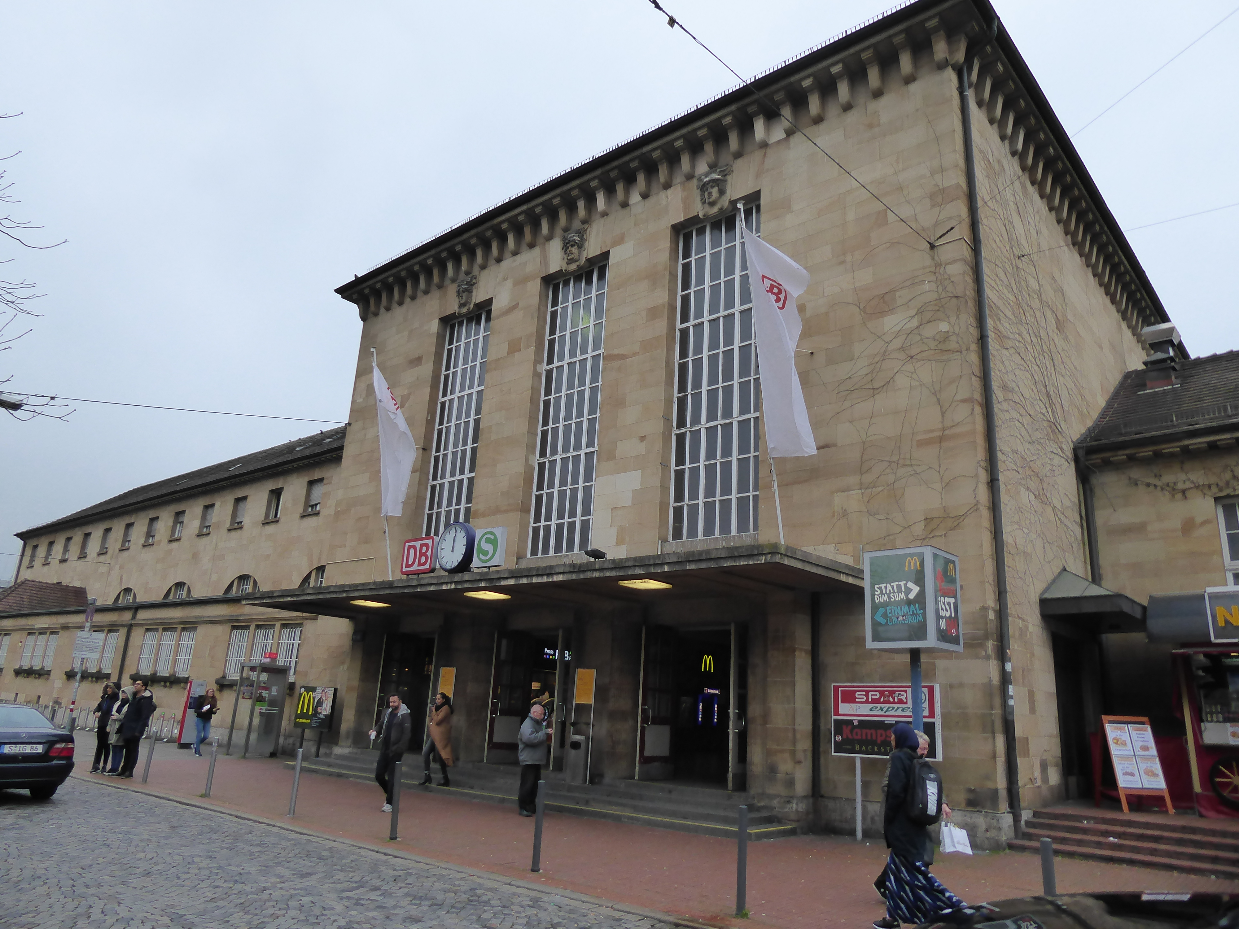 station in Stuttgart - Bad Cannstatt, building by Martin Mayer of 1914